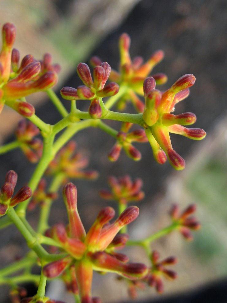 Stirlingia latifolia (Blueboy)